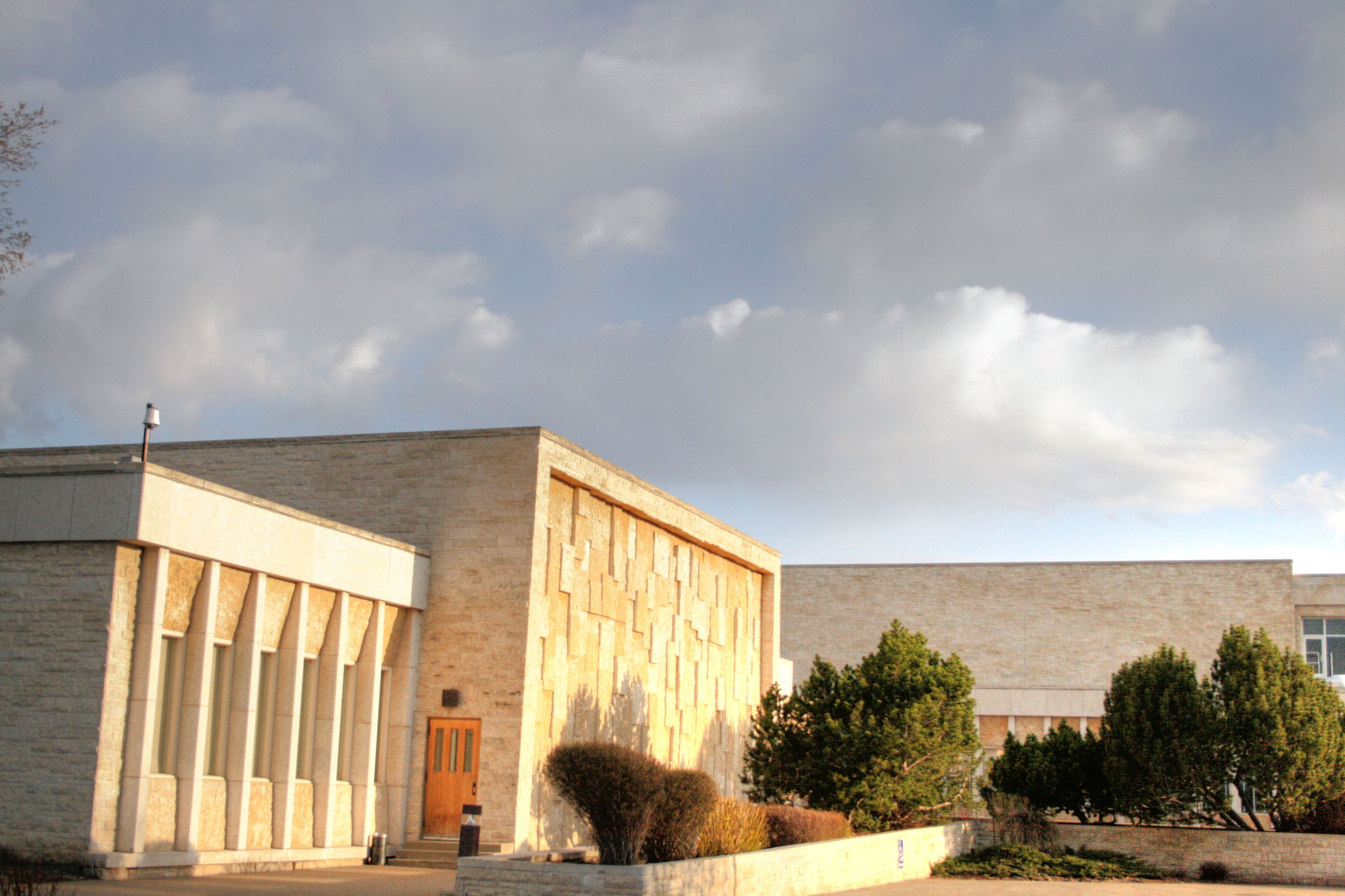 Buildings of the Royal Alberta Museum in Edmonton, Alberta, Canada.